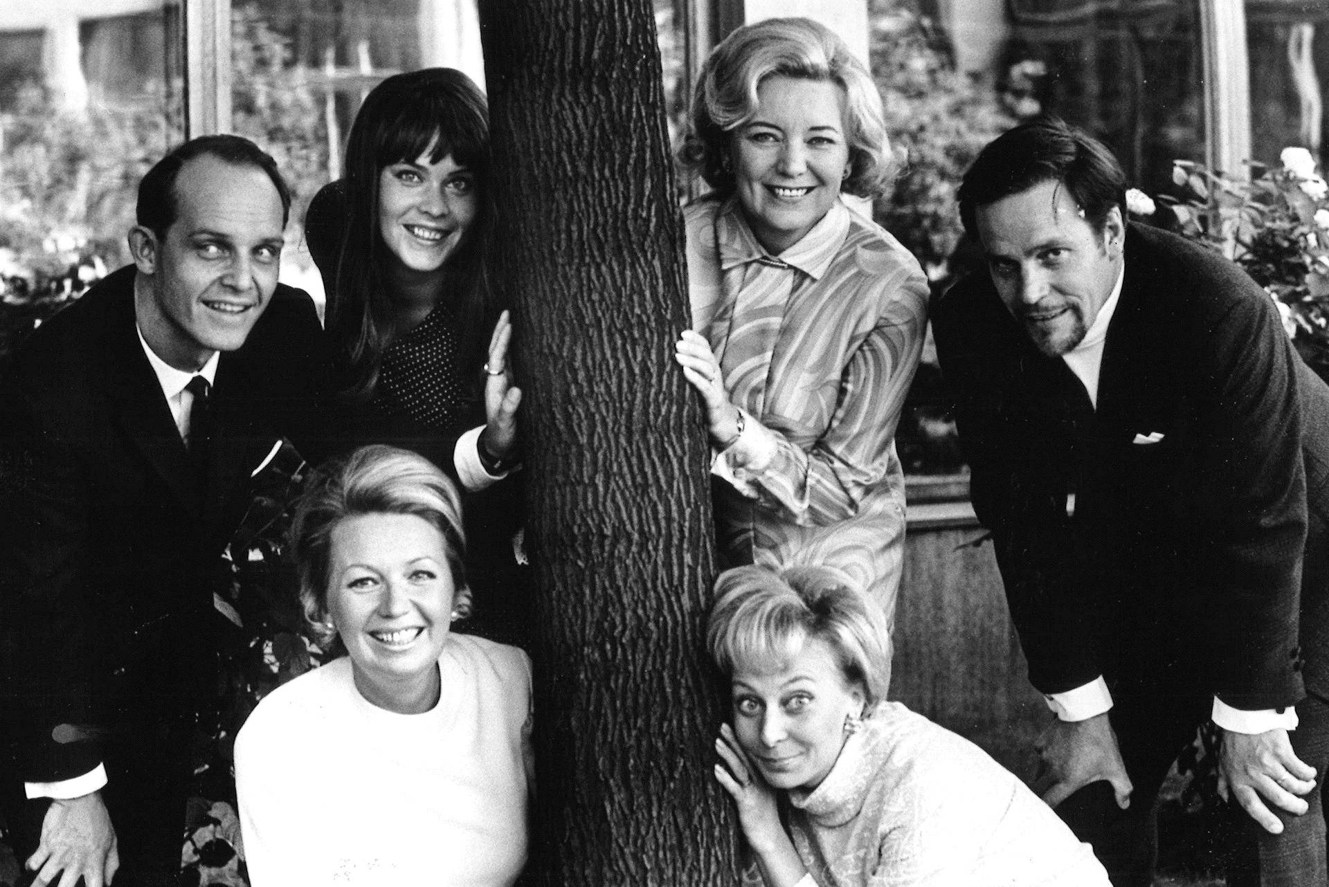 People of Intimiteatteri in Helsinki: Mai-Brit Heljo and Seela Sella (in front); Seppo Kolehmainen, Tuula Nyman, Hilkka Helinä and Tommi Rinne (in the back).